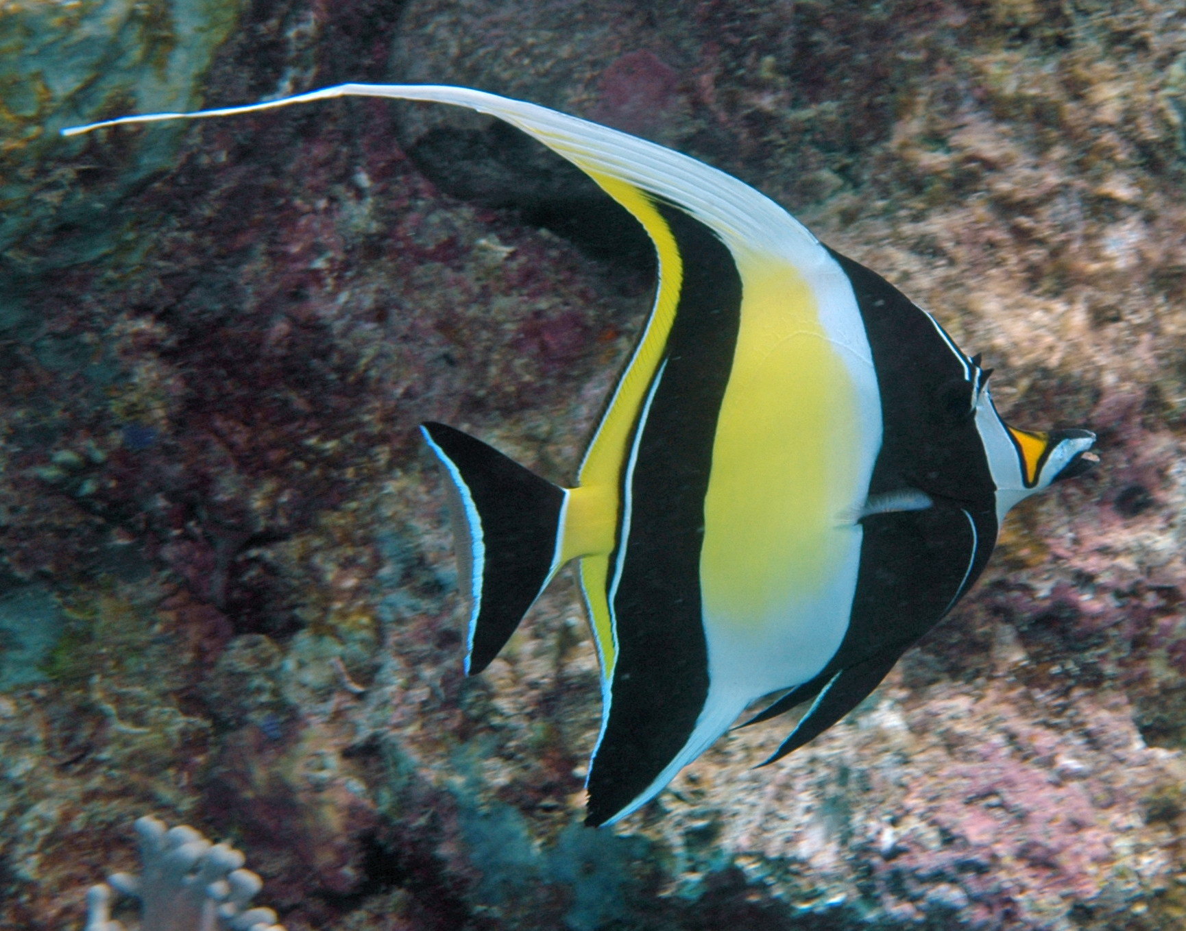 Zanclus cornutusGreat Barrier Reef, Cairns, Australia